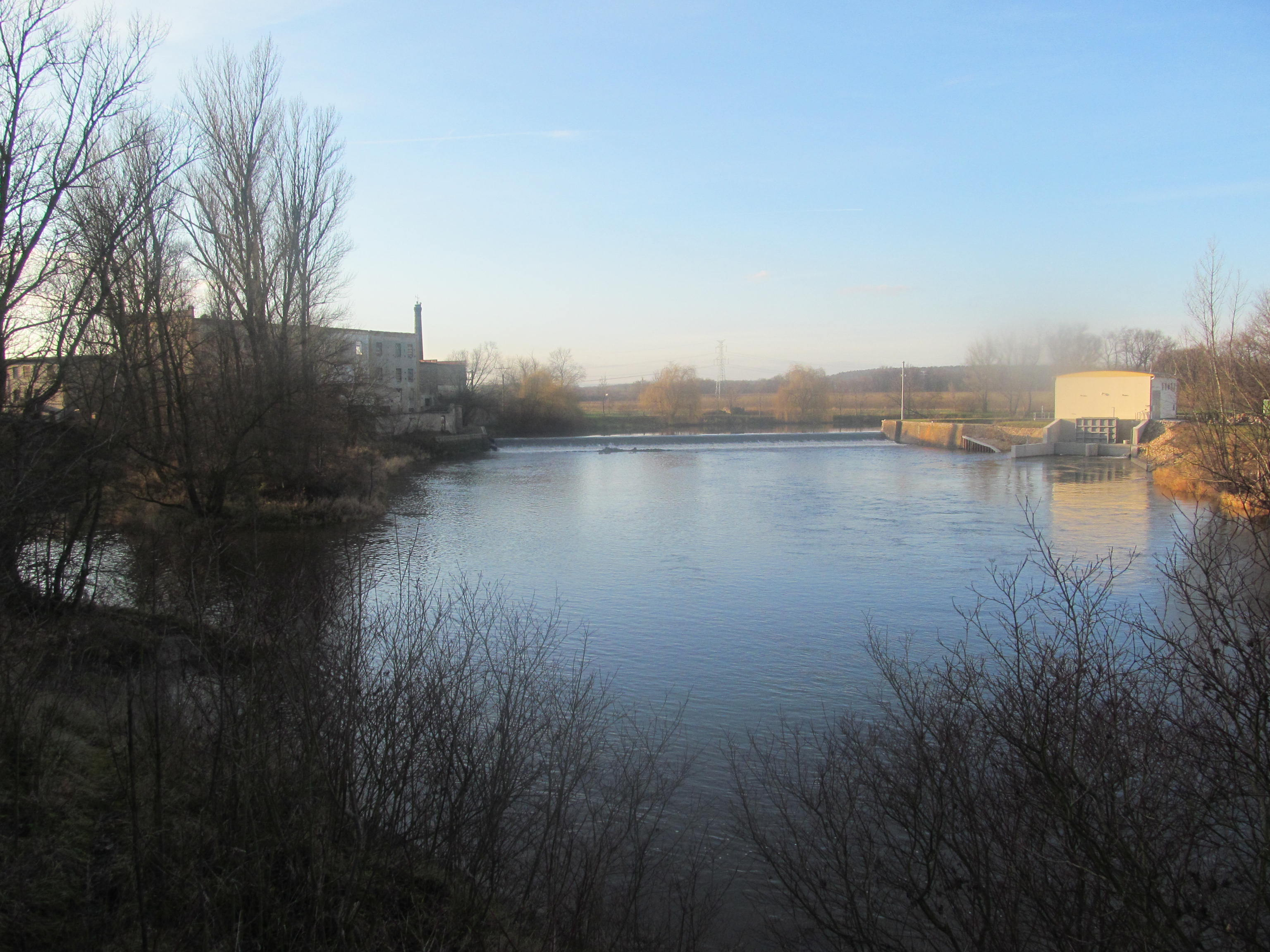 Former mill on Ohře river in Březno